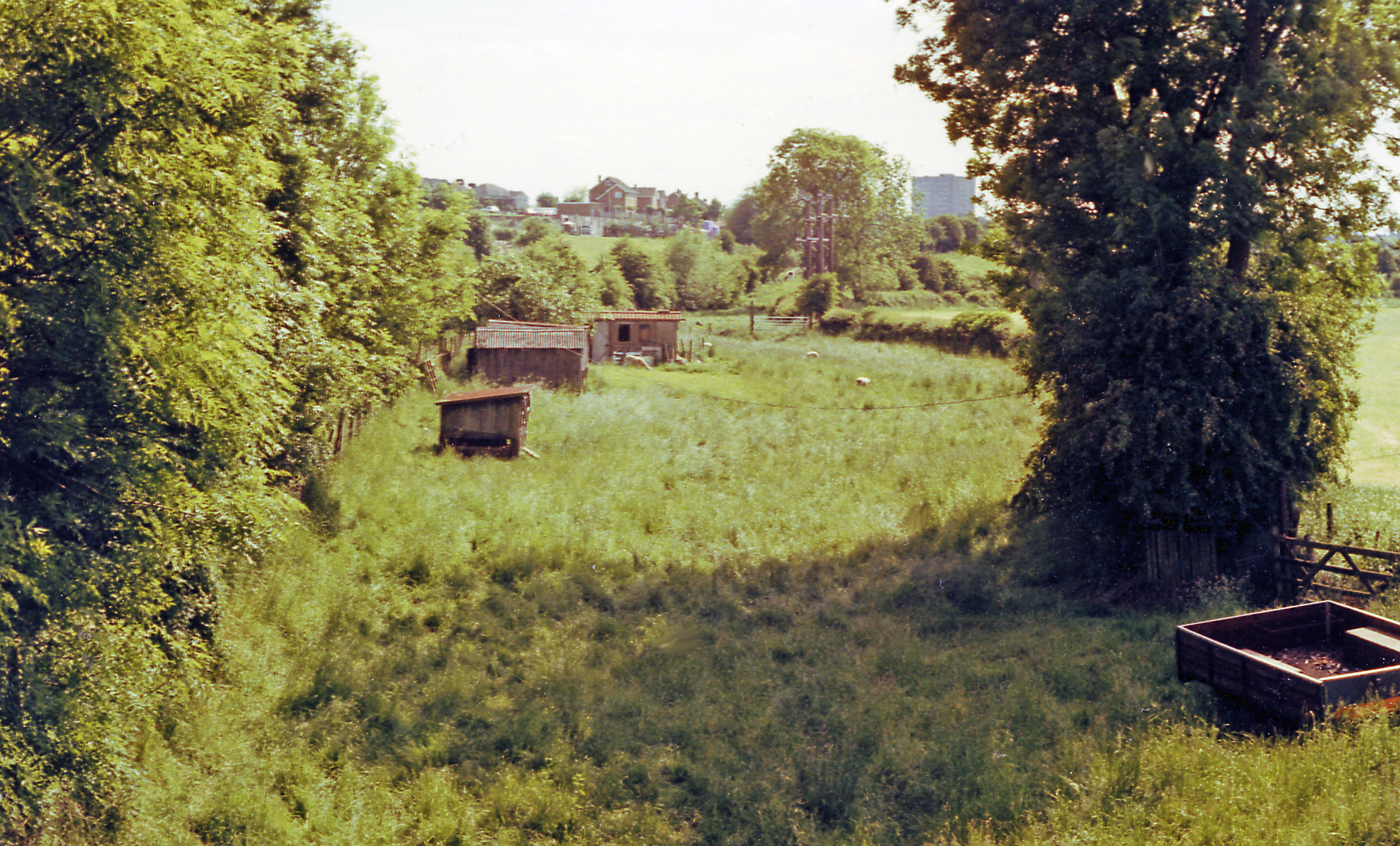 Site of Clifton Mill station, 1988. View SW, towards Rugby: ex-LNWR Rugby - Market Harborough - Peterborough secondary main line. The station had been closed from 6/4/53 and even the line was closed from 6/6/66, completely as far as Market Harborough, to passengers beyond.